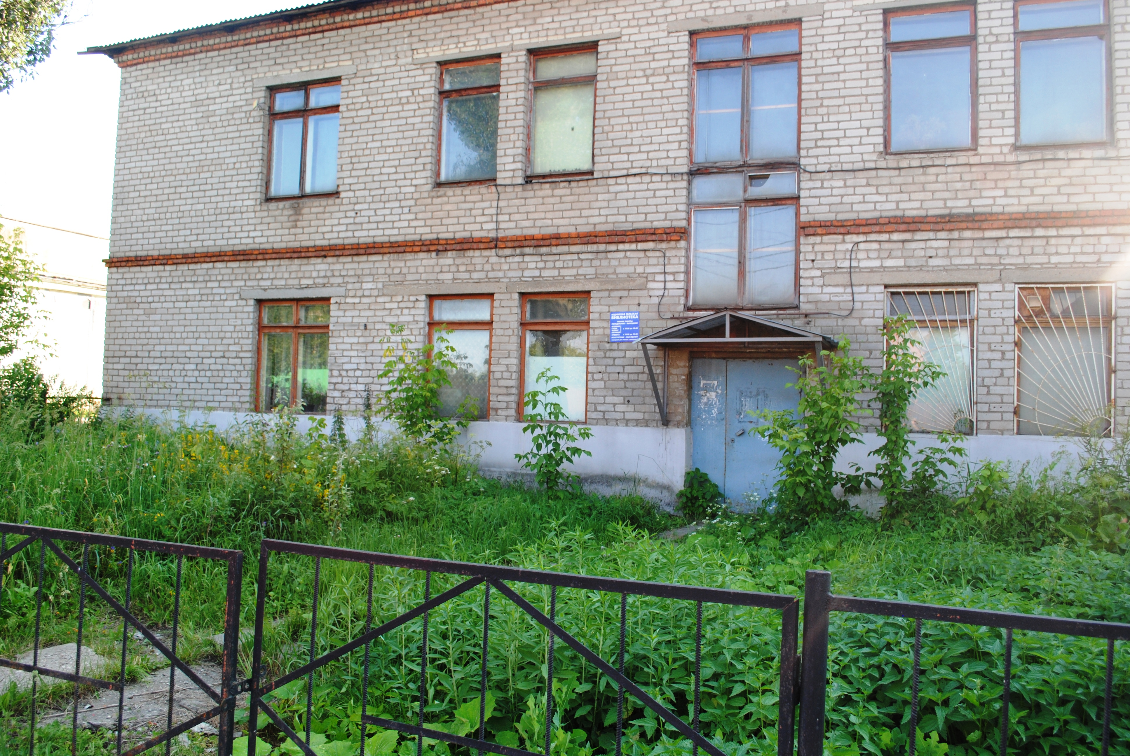 Udino